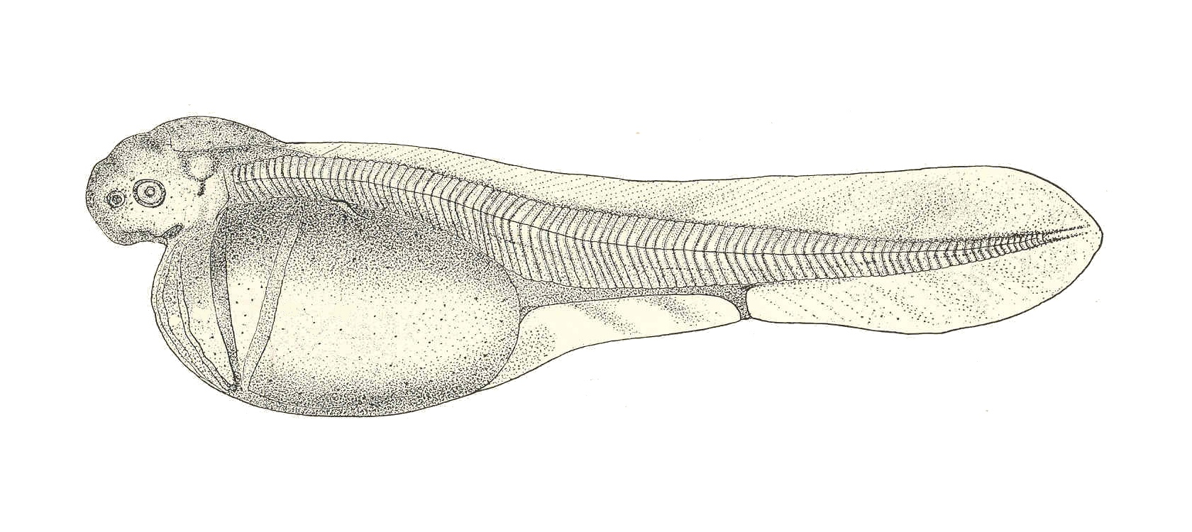 Side view of the just-hatched larva of the common sturgeon on the sixth day after the eggs were fertilized